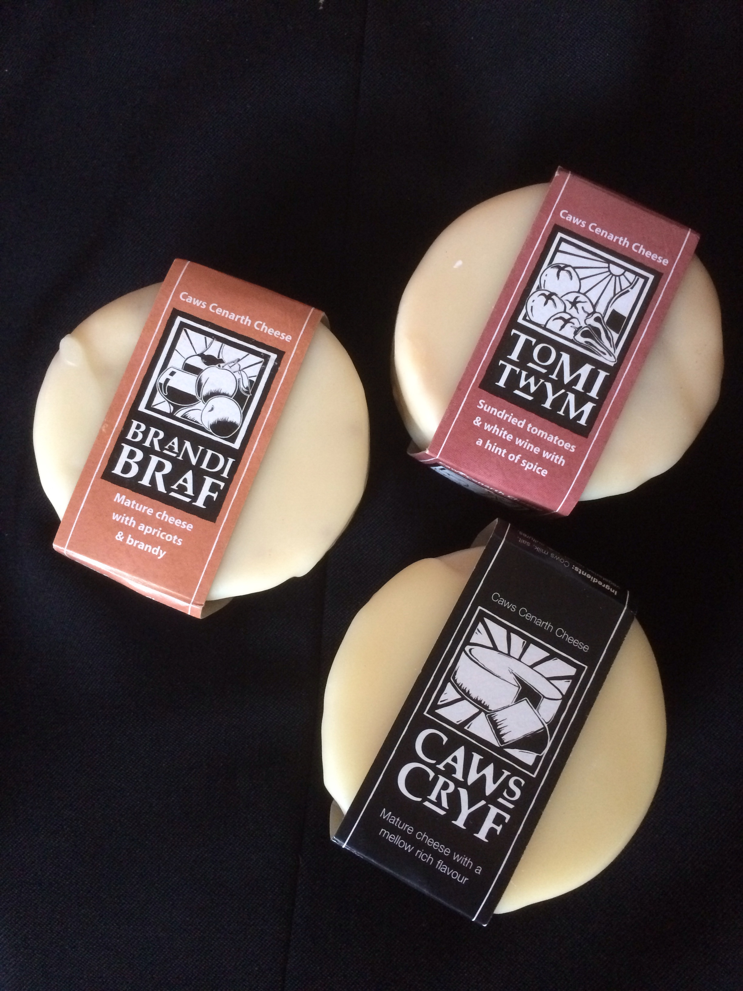 Caws Cenarth cheeses, selection of three types of cheeses